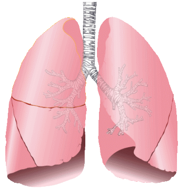 Lungs, adapted for use in Häggström diagrams